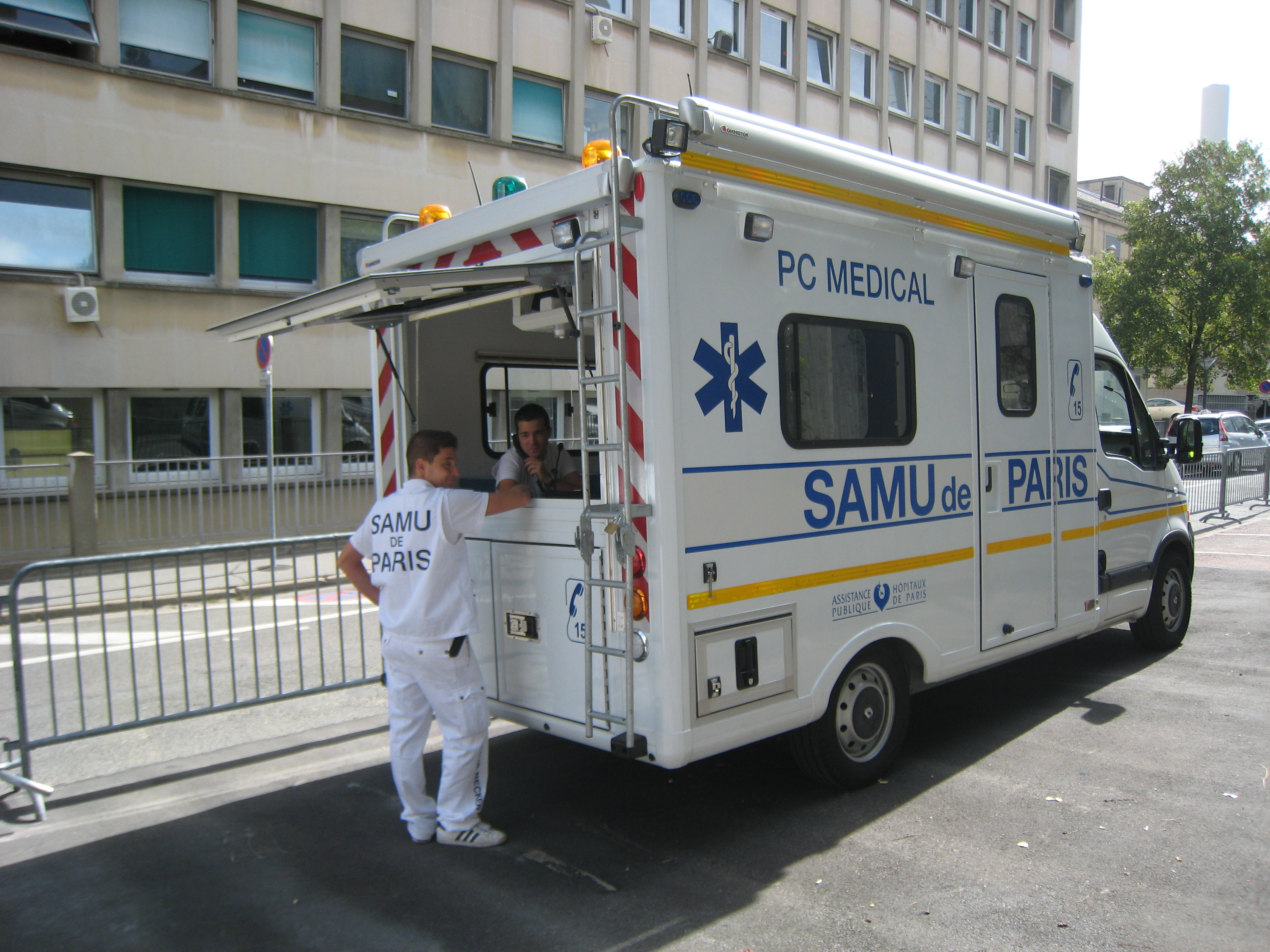 SAMU mobile Advanced Command Post